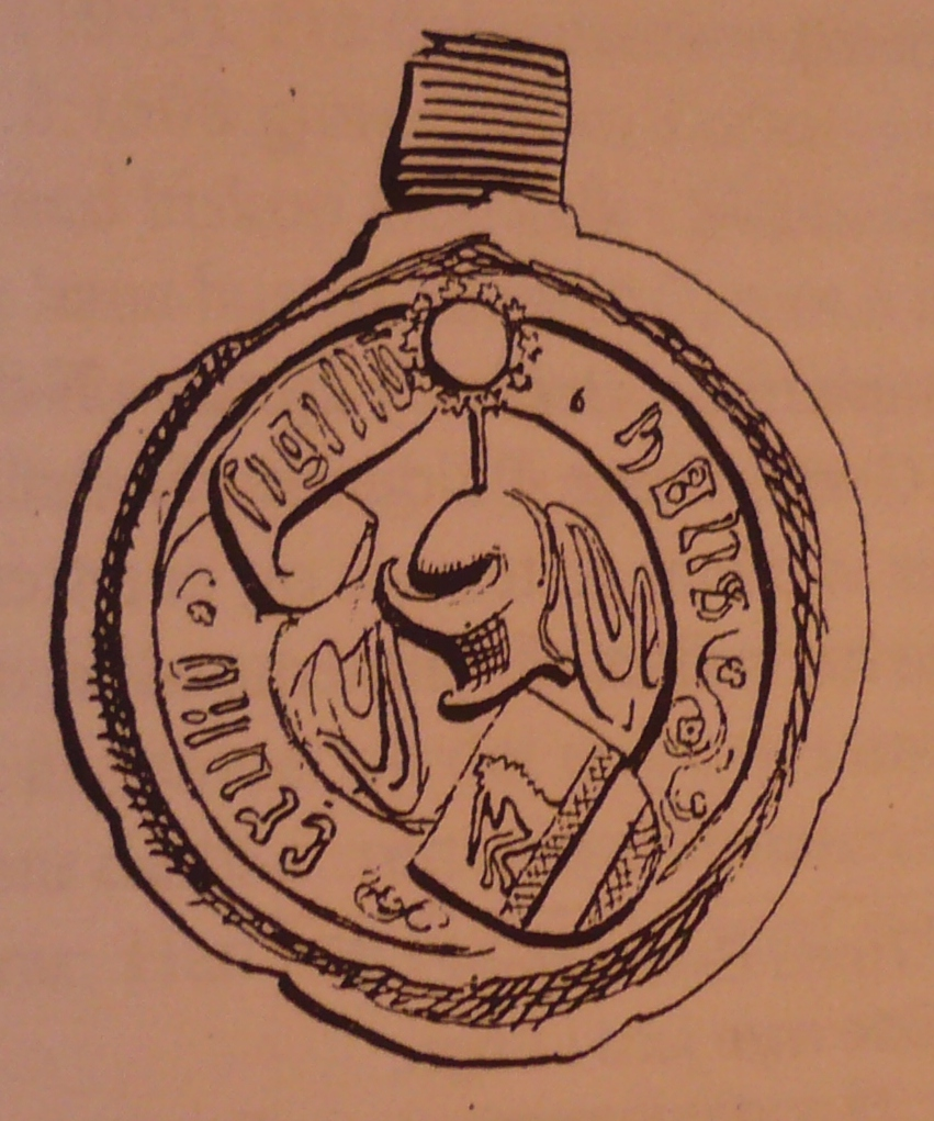 Coat of arms of Sir Hans Kruckow in Norway 1450.